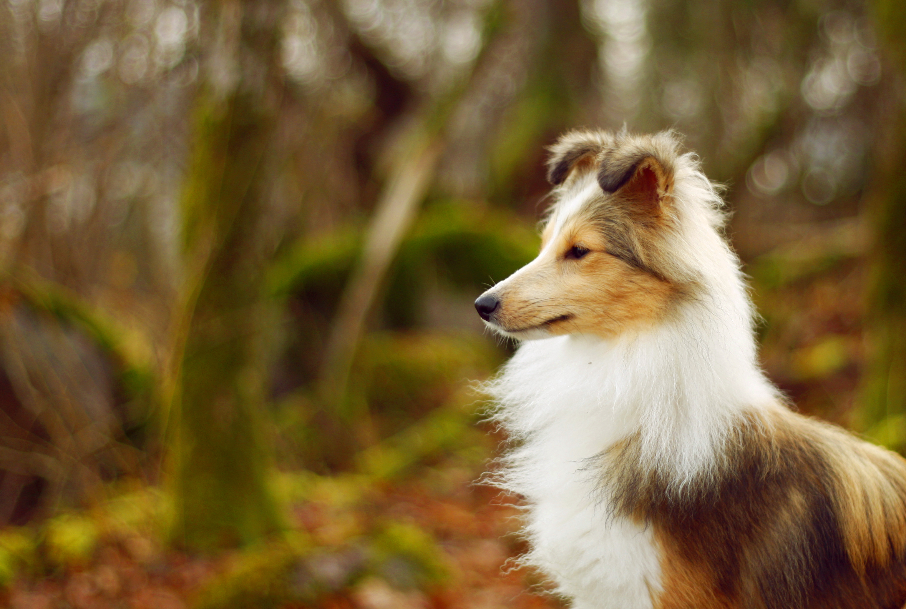 Shetland Sheepdog